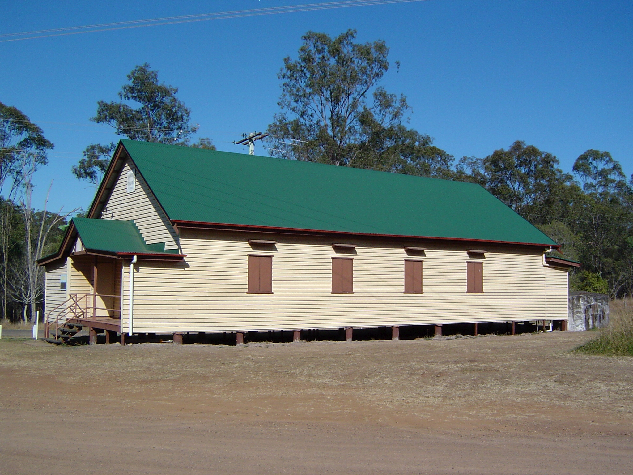 Photo of Pine Mountain Community Hall at Pine Mountain, City of Ipswich, Queensland, Australia.